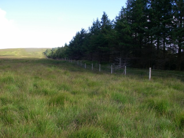 The edge of Coetgae Du The Taf Fechan Forest comes right up to Bwlch Gwyn.